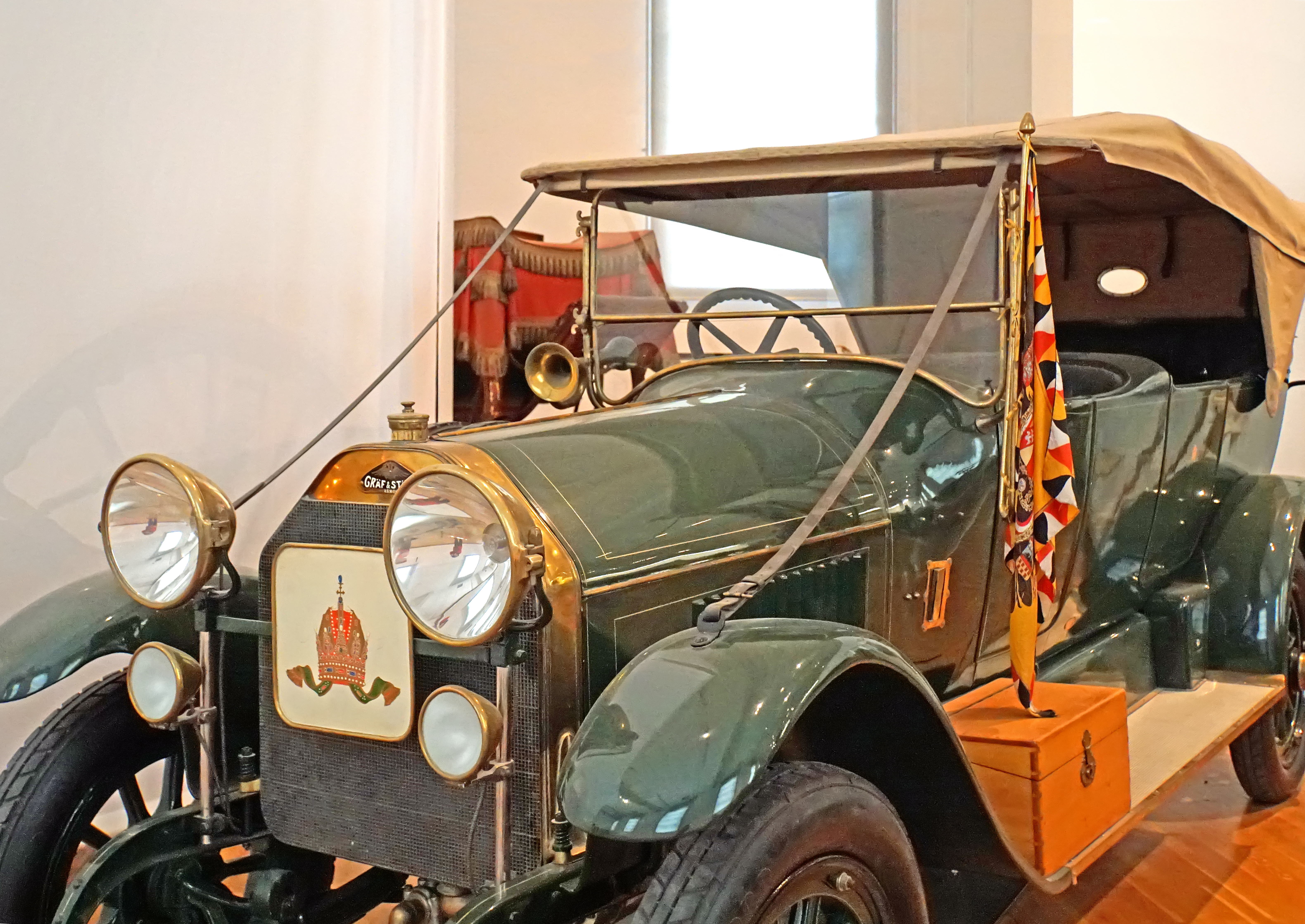 The 1914 motor car used to take the last Emperor, Charles I into exile in 1920. There are so many other carriages and displays at the museum, well worth a visit and requires way more time than what I had.